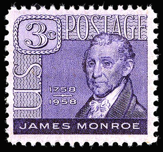 US Postage stamp: James Monroe, Issue of 1958, 3c